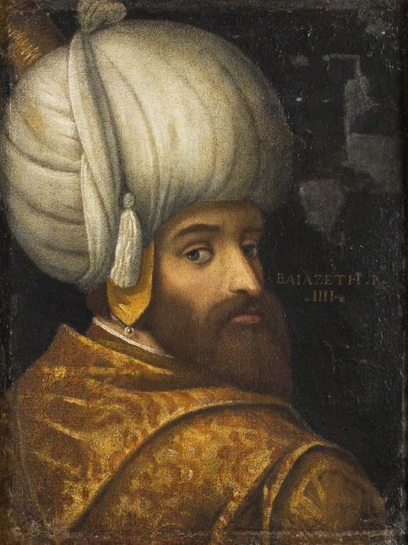 Bayazid I